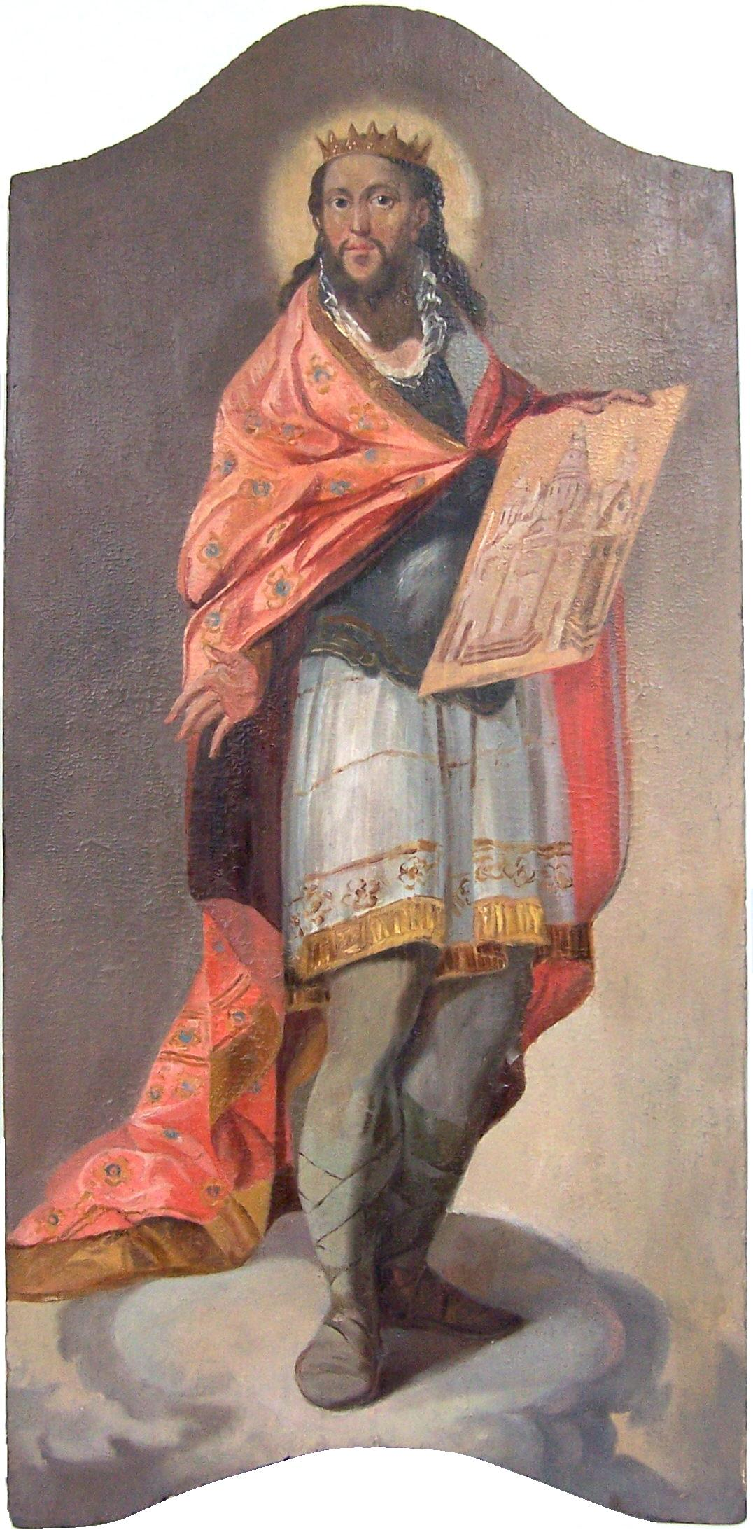 The picture is a Greek Catholic icon depicting King Solomon with the plans of the Temple of Jerusalem that was built by him according to the Bible. The icon was painted in the end of the 18th century as part of the iconostasis of the Greek Catholic Cathedral of Hajdúdorog, Hungary. Solomon's icon is placed on the third tier of the iconostasis, the so called Prophets tier. This icon is the fourth painting from the right.